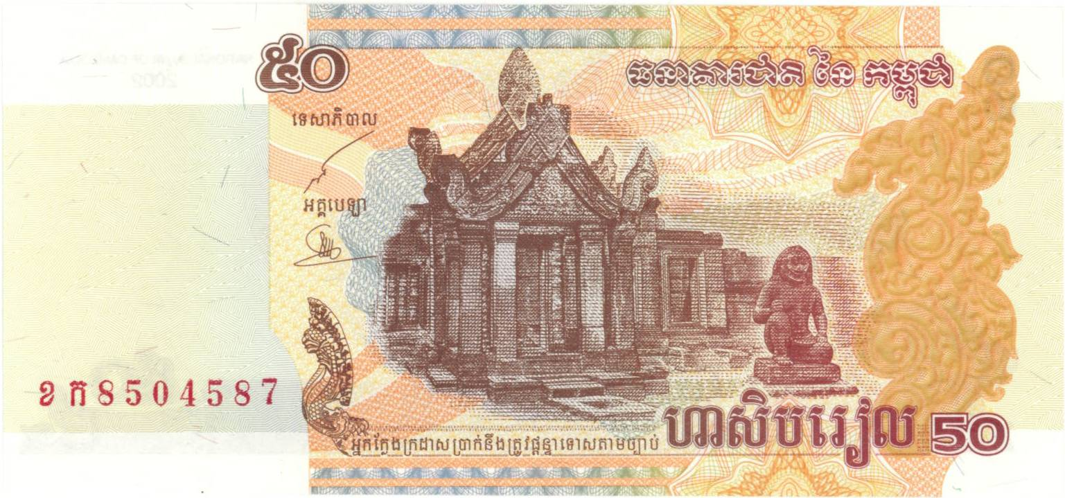 This note is one of my collection and i scanned it